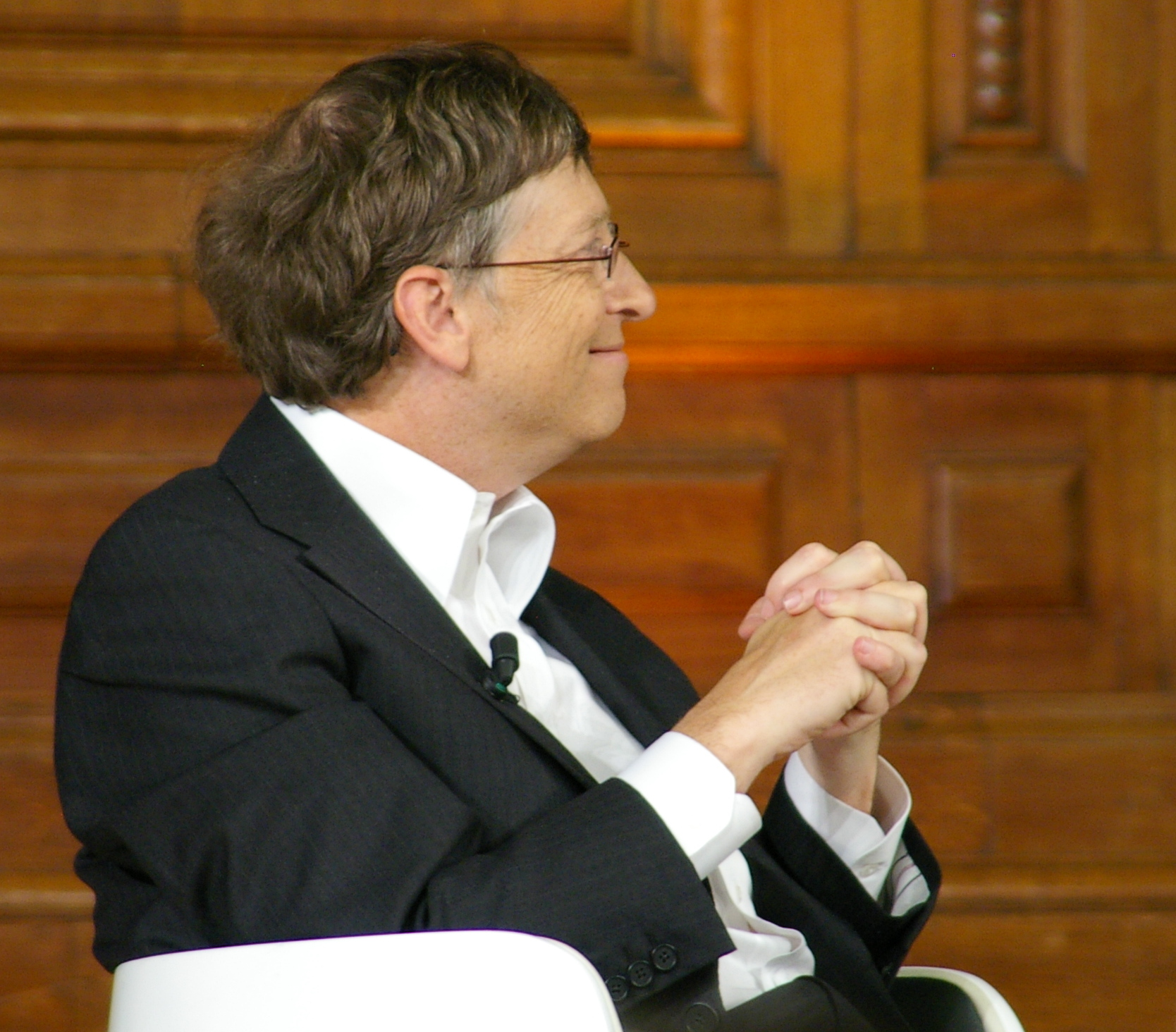 Microsoft's CEO Bill Gates, at Sorbonne University, Paris, France.